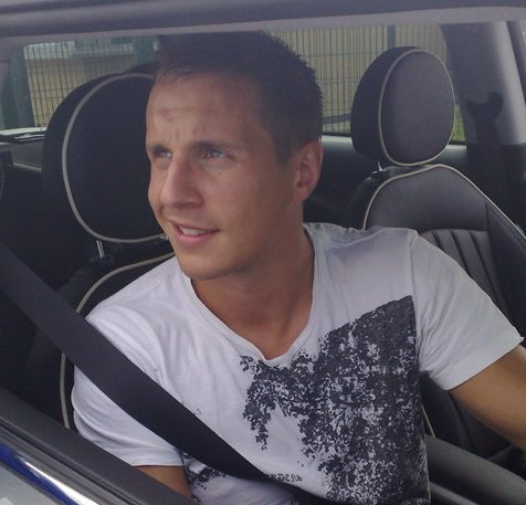 Phil Jagielka in his car outside Finch Farm